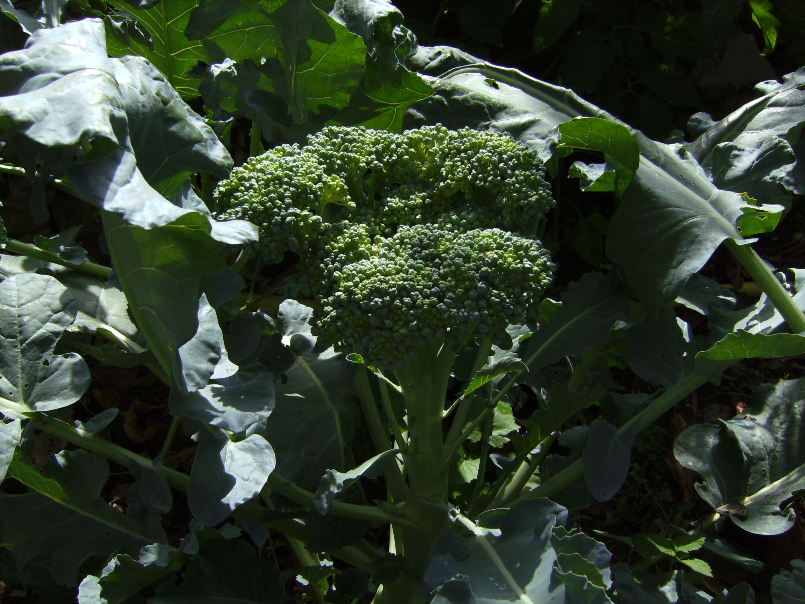 Broccoli head on the plant, Castelltallat, Catalonia